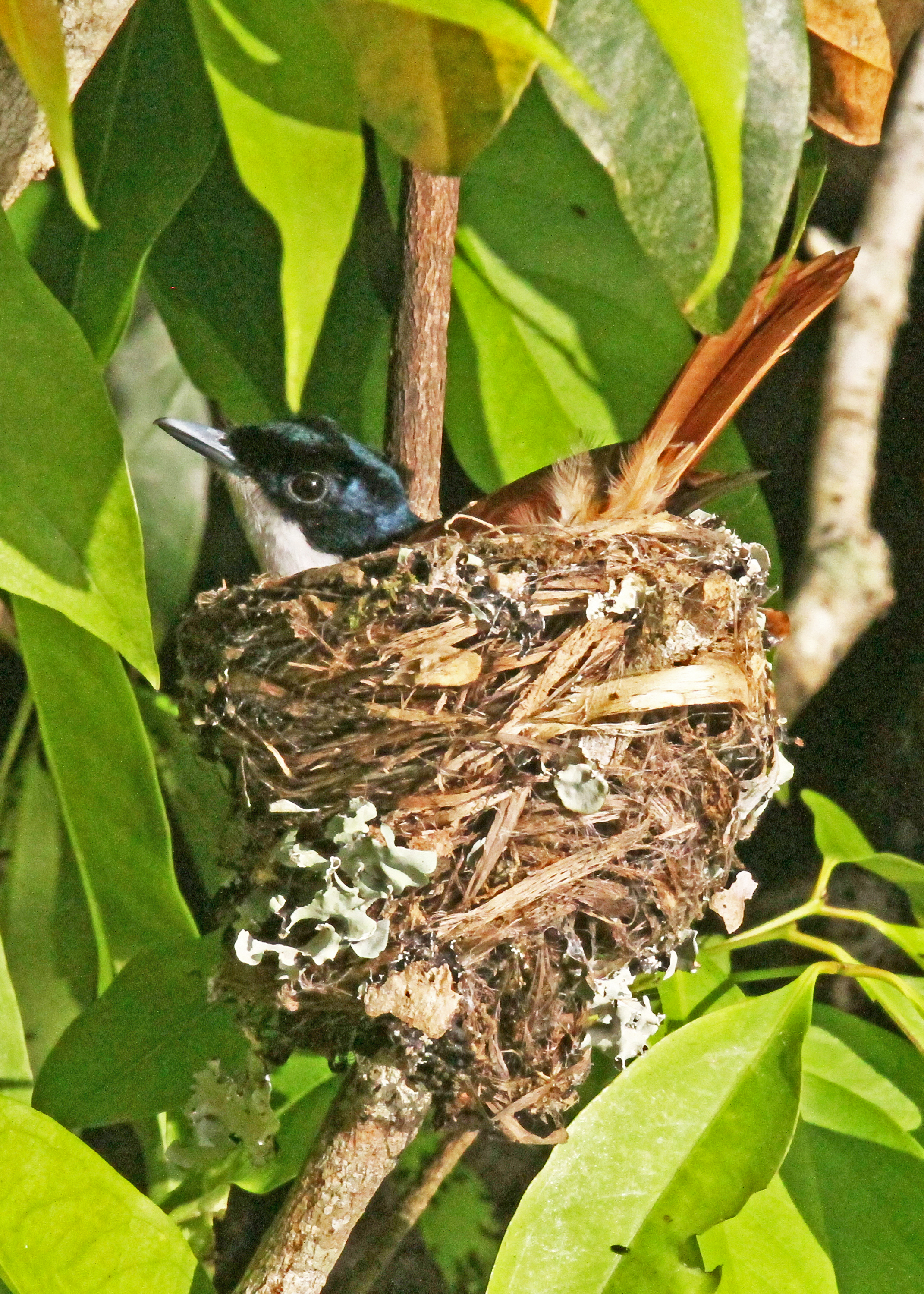 photo of female Shining Flycatcher on her nest